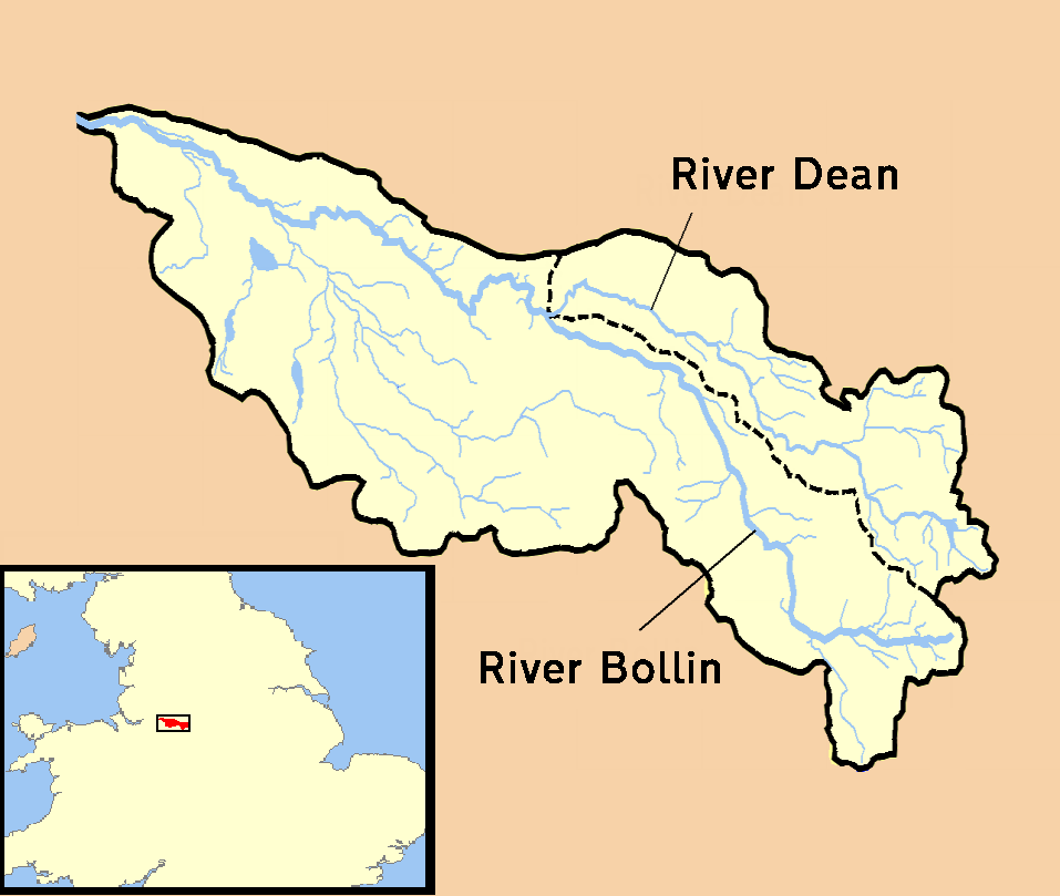 A map showing the catchment area/drainage basin of the River Bollin in Cheshire, UK.